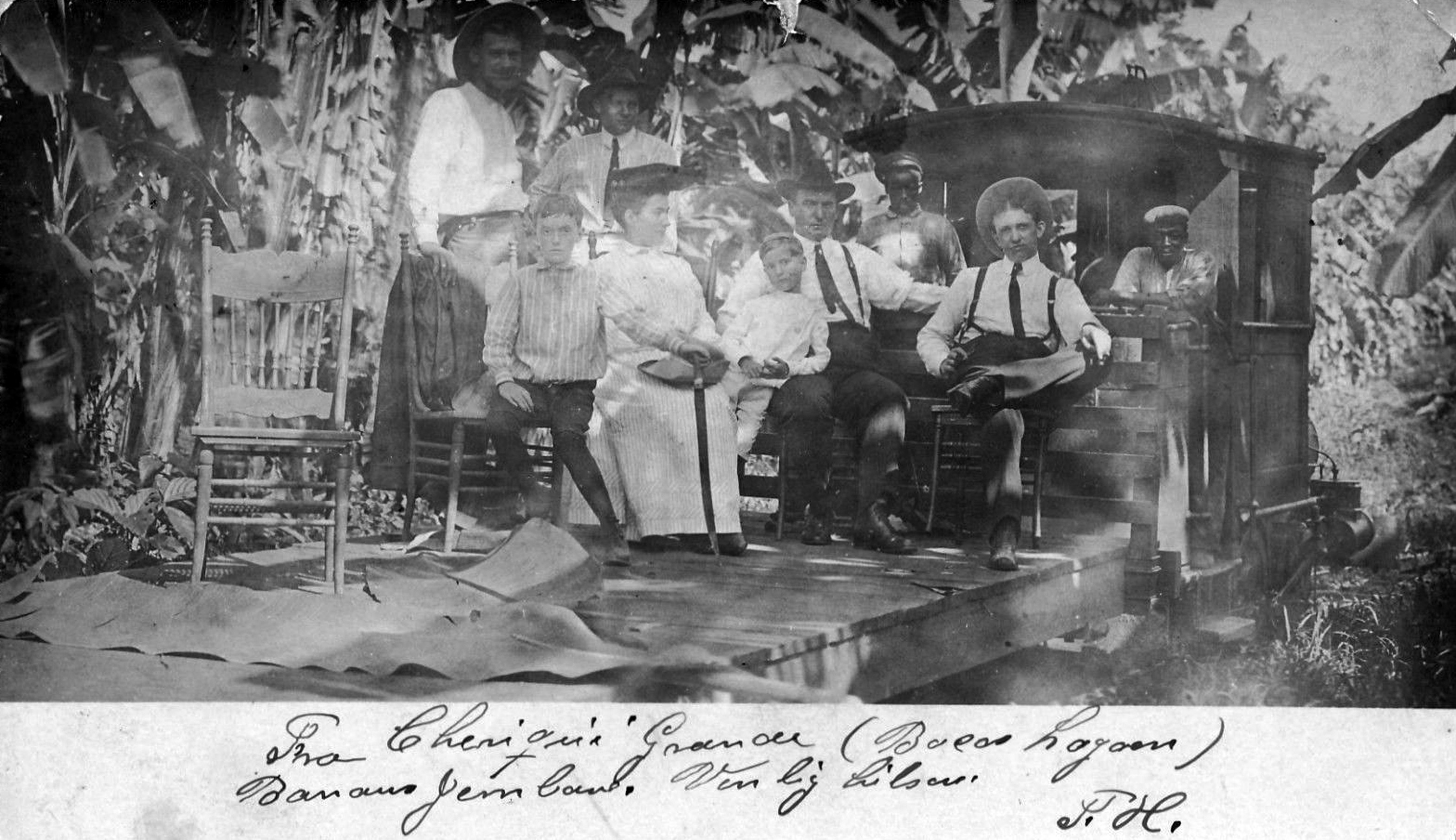 Banana plantation, Chiriqui Land Company (owned by United Fruit Co.) 3ft gauge, Panama. Probably the plantation manager and family, with a couple of supervisors on an excursion. Caption "Fra Cheriqui Grande (Buea Lagoon) Banana jernbane. Venlig hilsen. F.H."